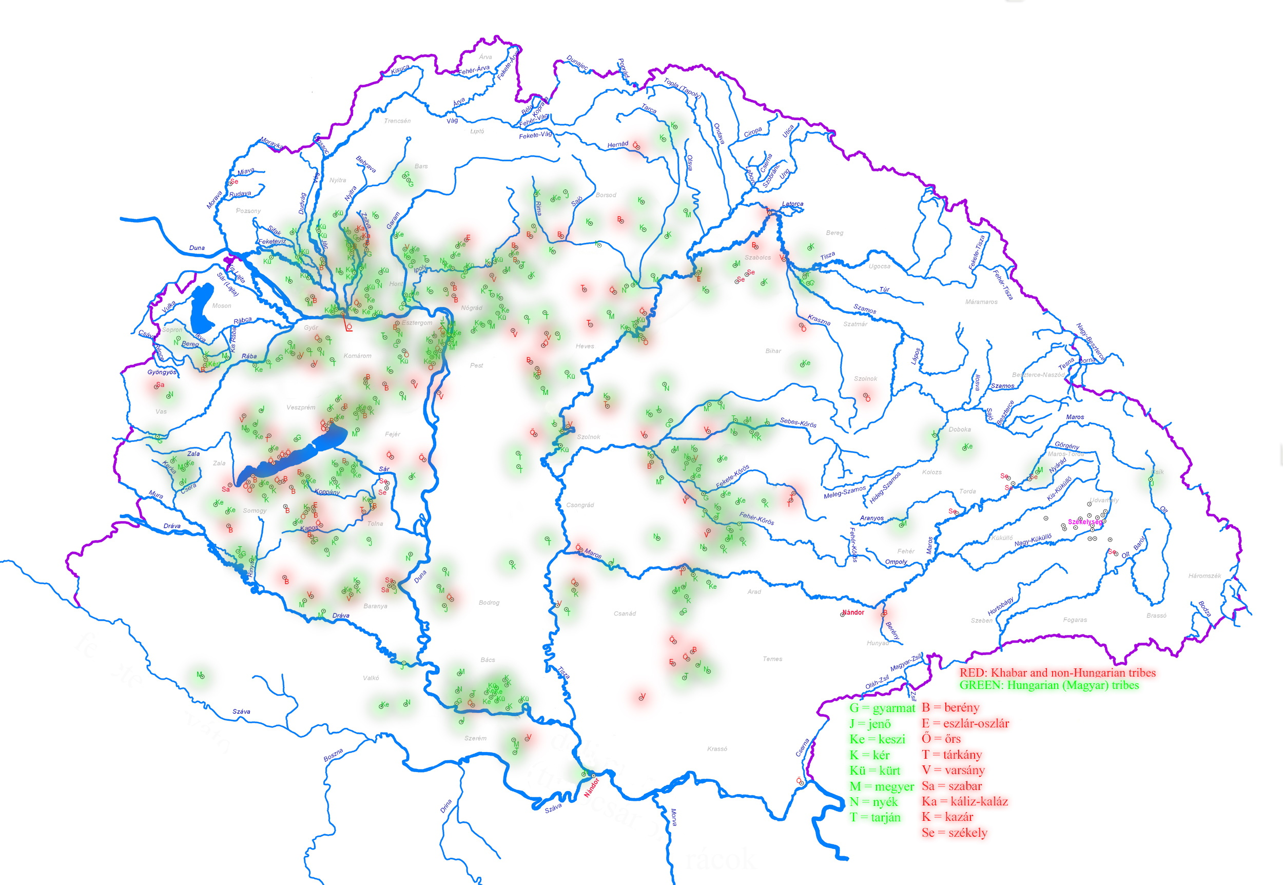 Green: Hungarians, Red: Kabars and other tribes